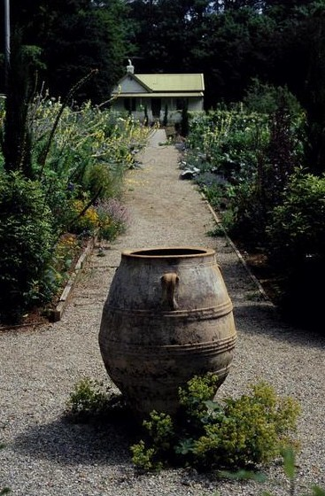 Garden path up vege garden at hascombe